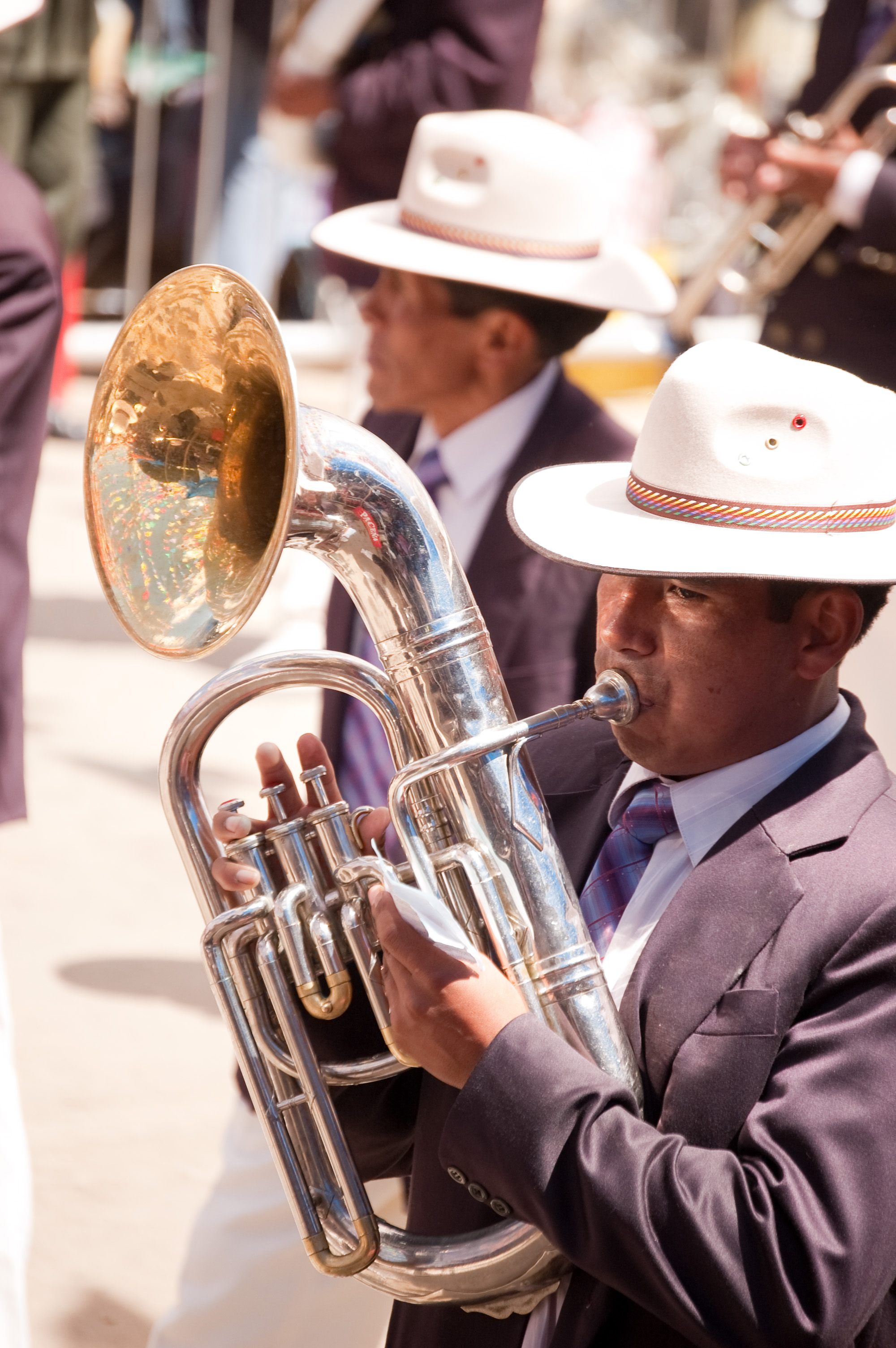 Carnival 2009 in Oruro Bolivia